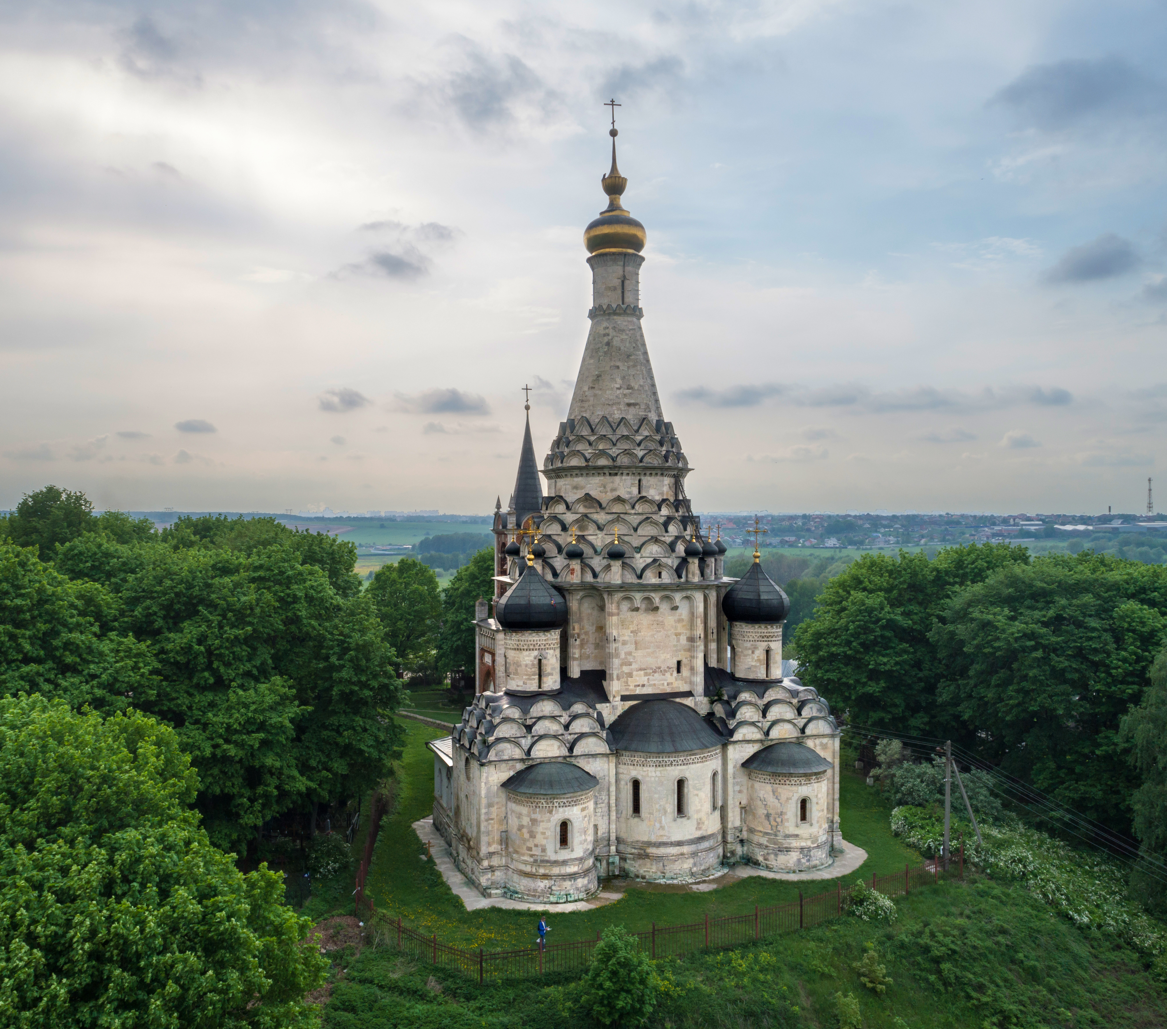 Transfiguration Church, Ostrov, Leninsky district, Moscow oblast